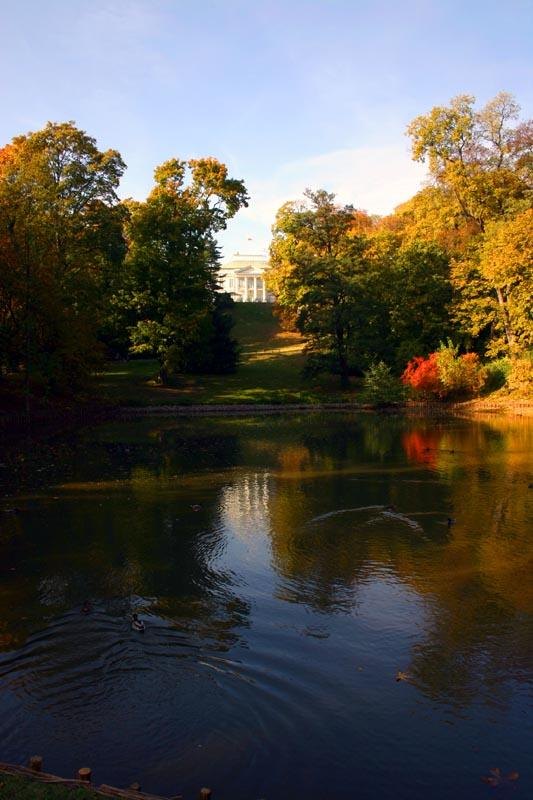 Belweder in Warsaw with the permission of the authers Marek and Ewa Wojciechowscy [1]